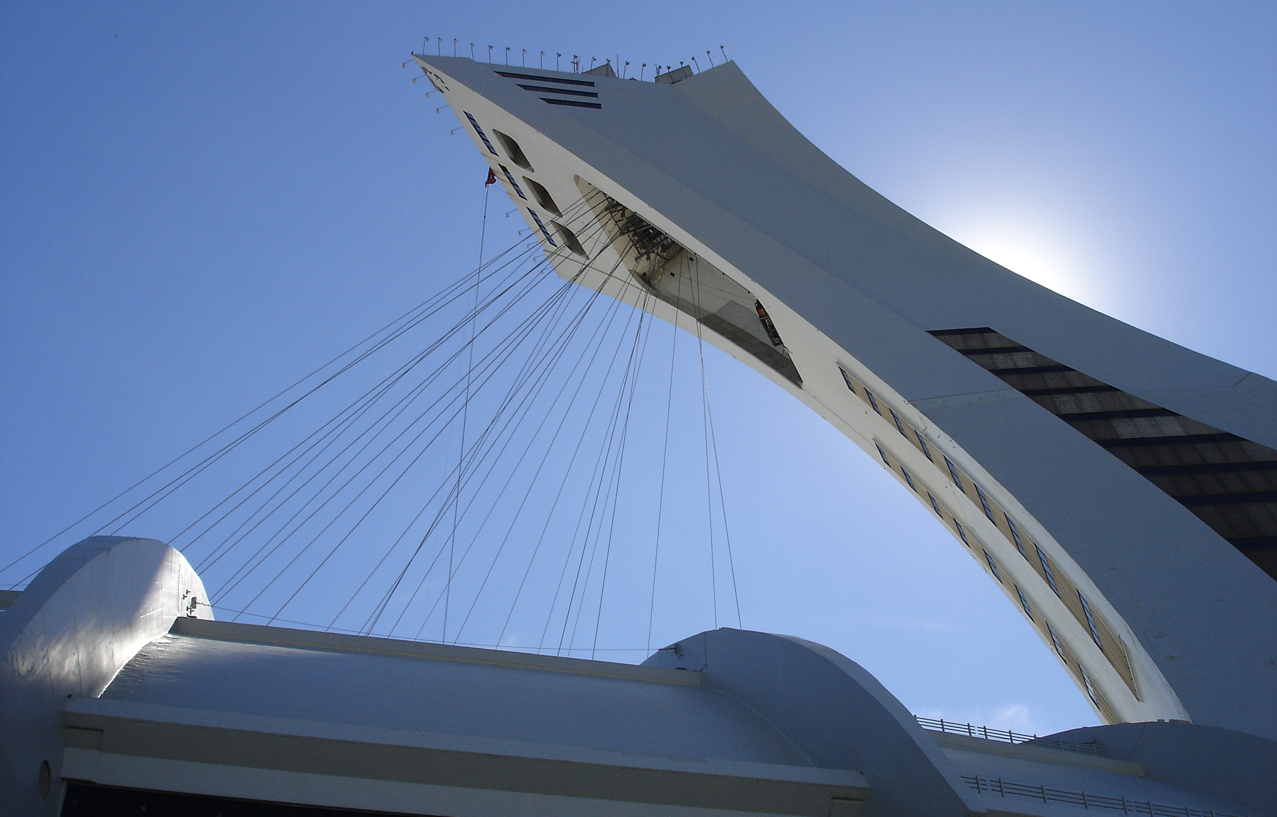 Backlit view of the tower of the Montreal Olympic Stadium, showing the cabling which operates the retractable roof.